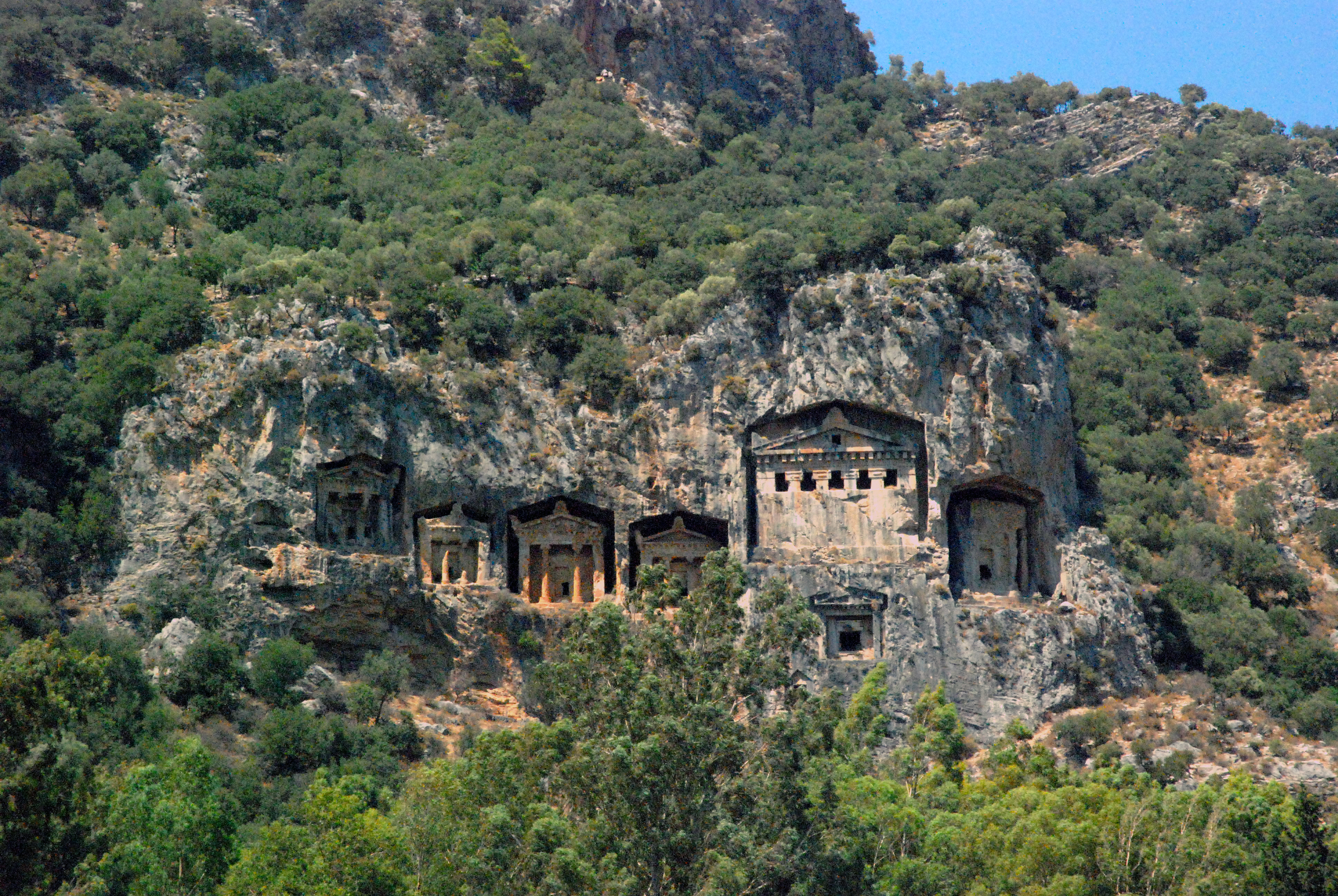 built 2500 years ago by the Lycians